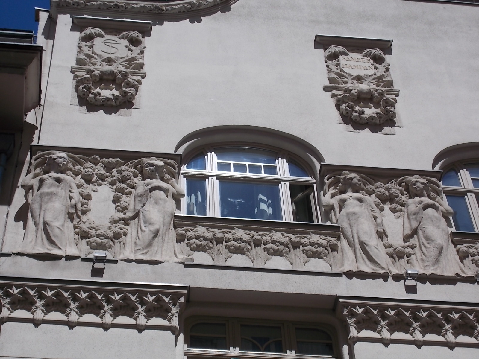 Staffenberg house (1904), now hotel. - 6 Piarista Street, Inner City neighborhood, 5th district of Budapest.